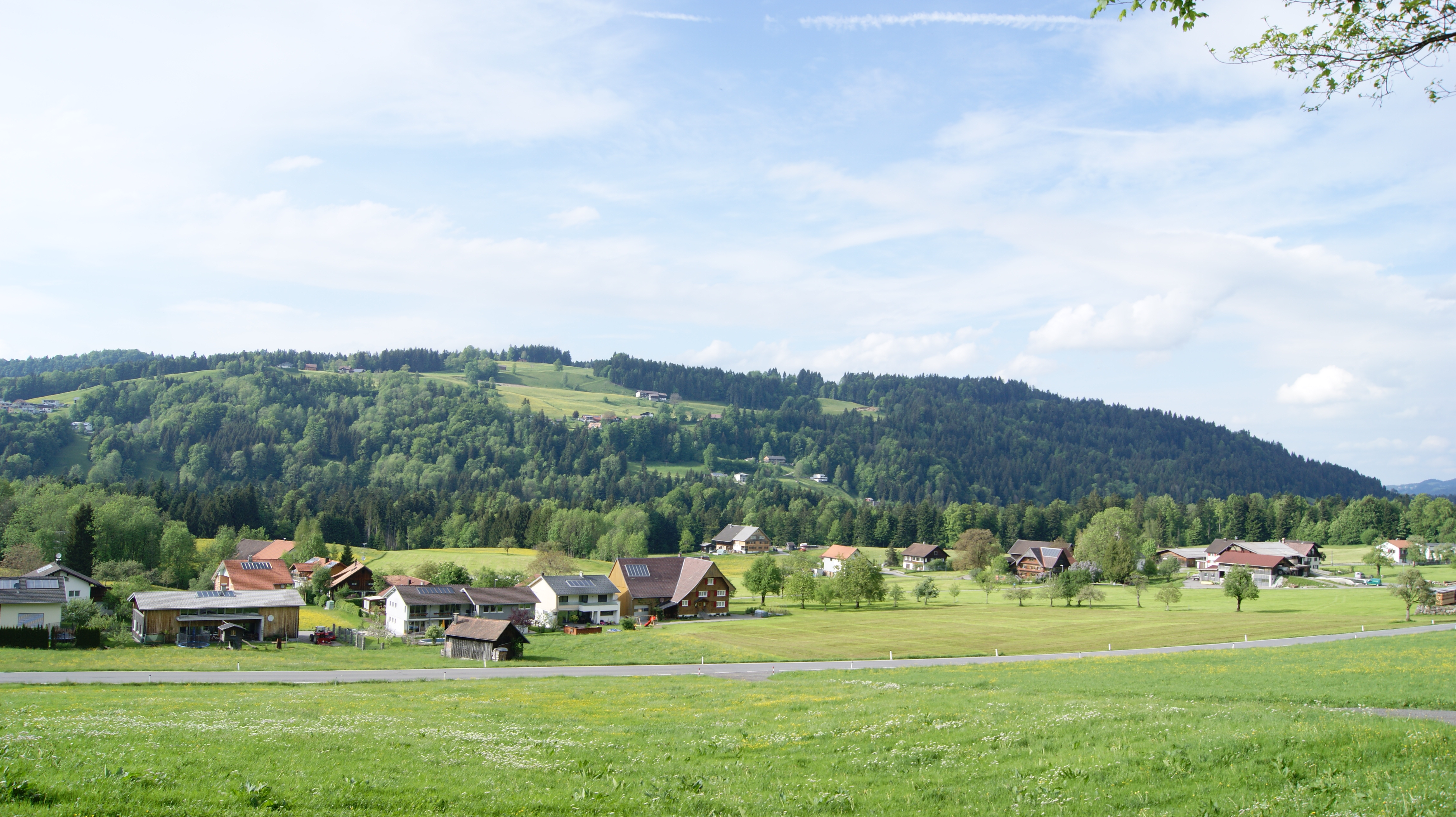 Winsau in Dornbirn, Vorarlberg, Austria. In the background the hamlet Bildstein / Farnach.